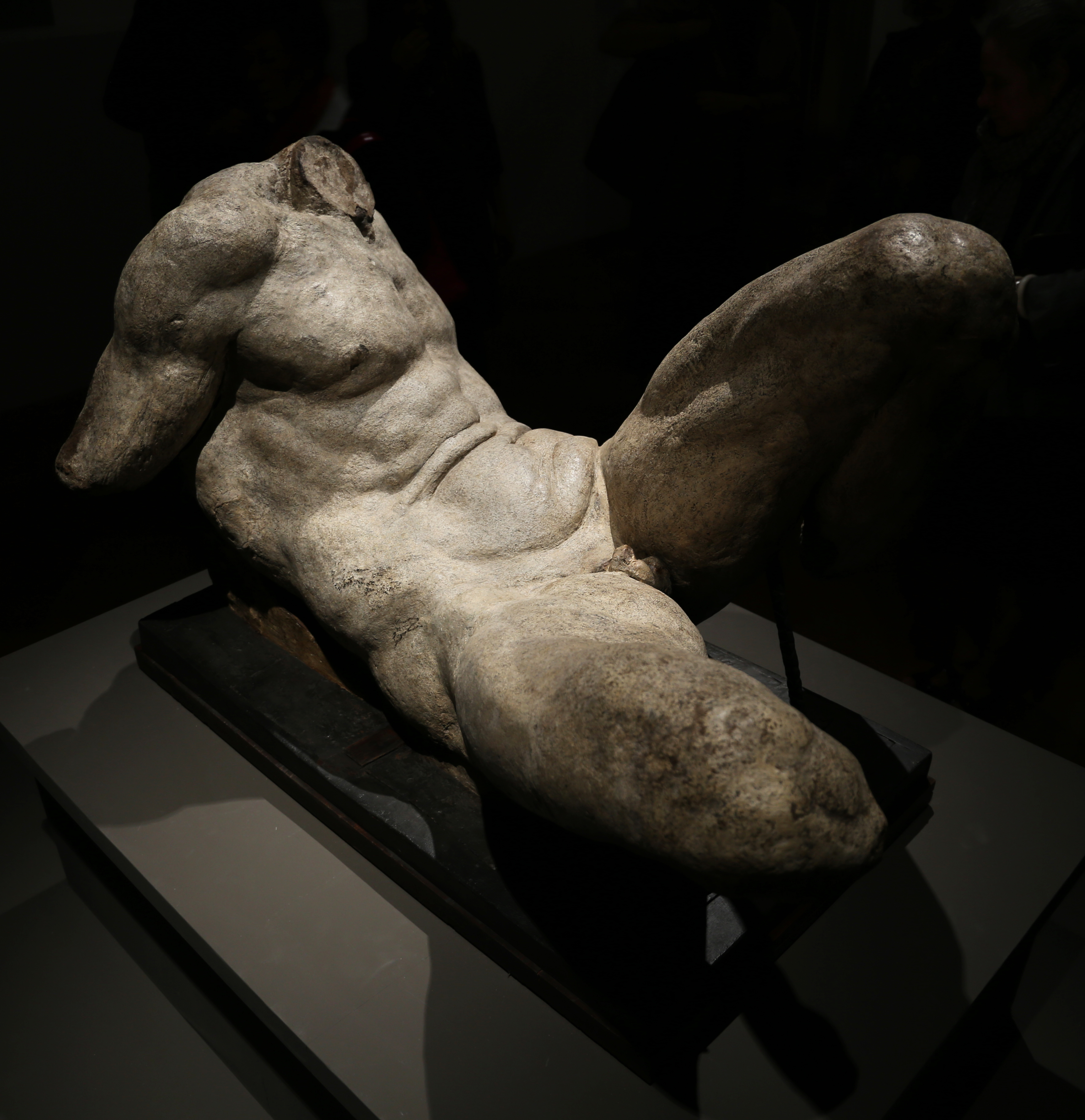 Il Cinquecento a Firenze (2017 exhibition)